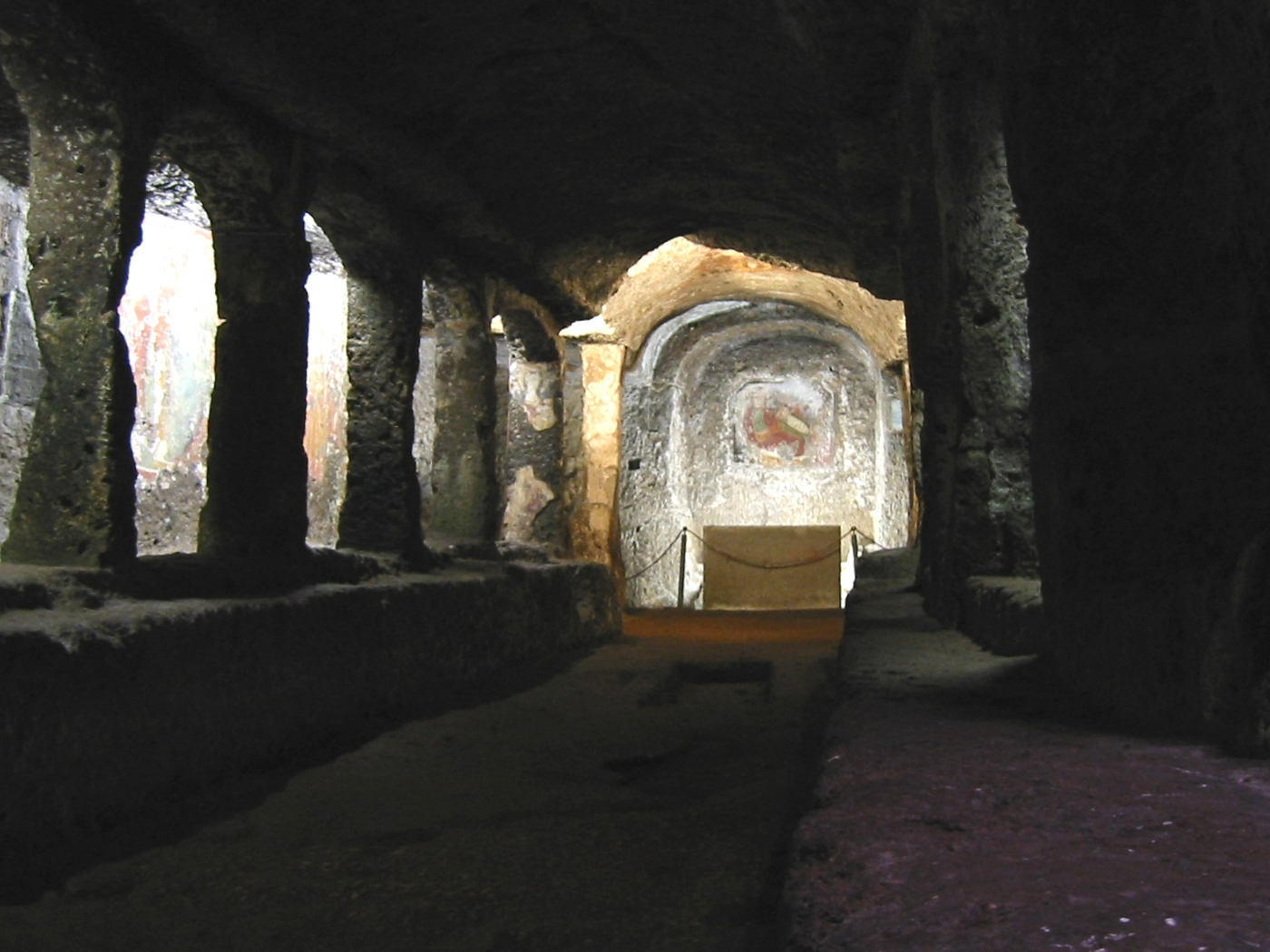 Inside the church Madonna Del Parto, a former etruscan tomb carved into the tuff-stone at Sutri, in Lazio, Italy